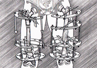 Ilizarov apparatus